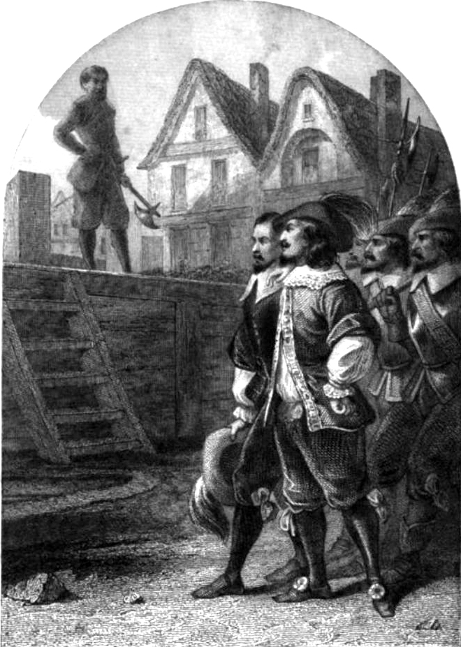 Cinq-Mars (1620–1642) and François de Thou's Execution on September 12th, 1642